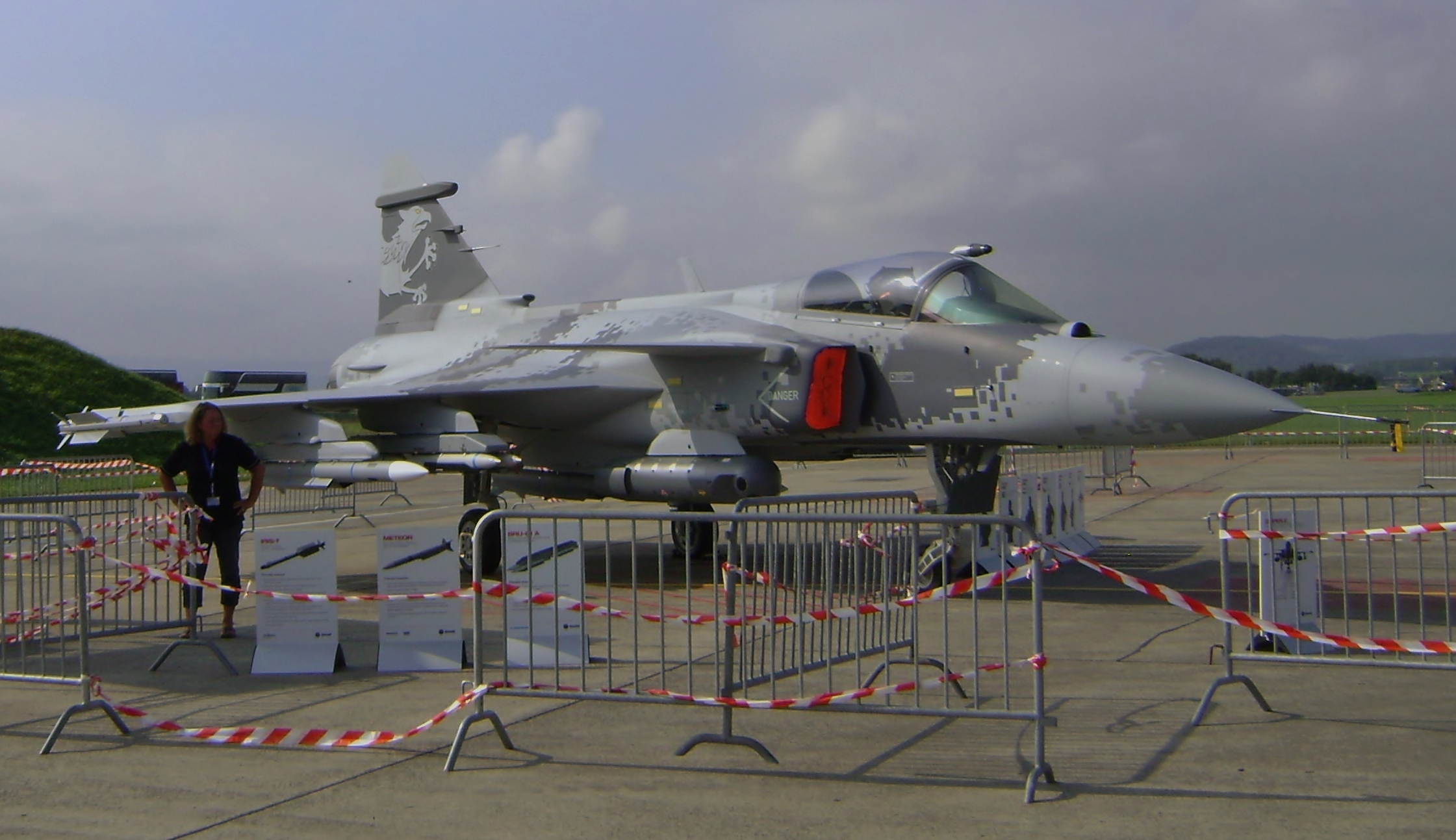 Gripen E Modell